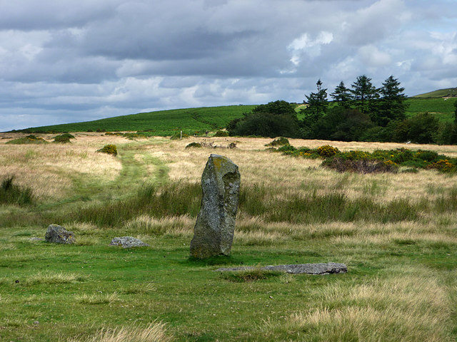 Part of Mitchell's Fold, stone circle